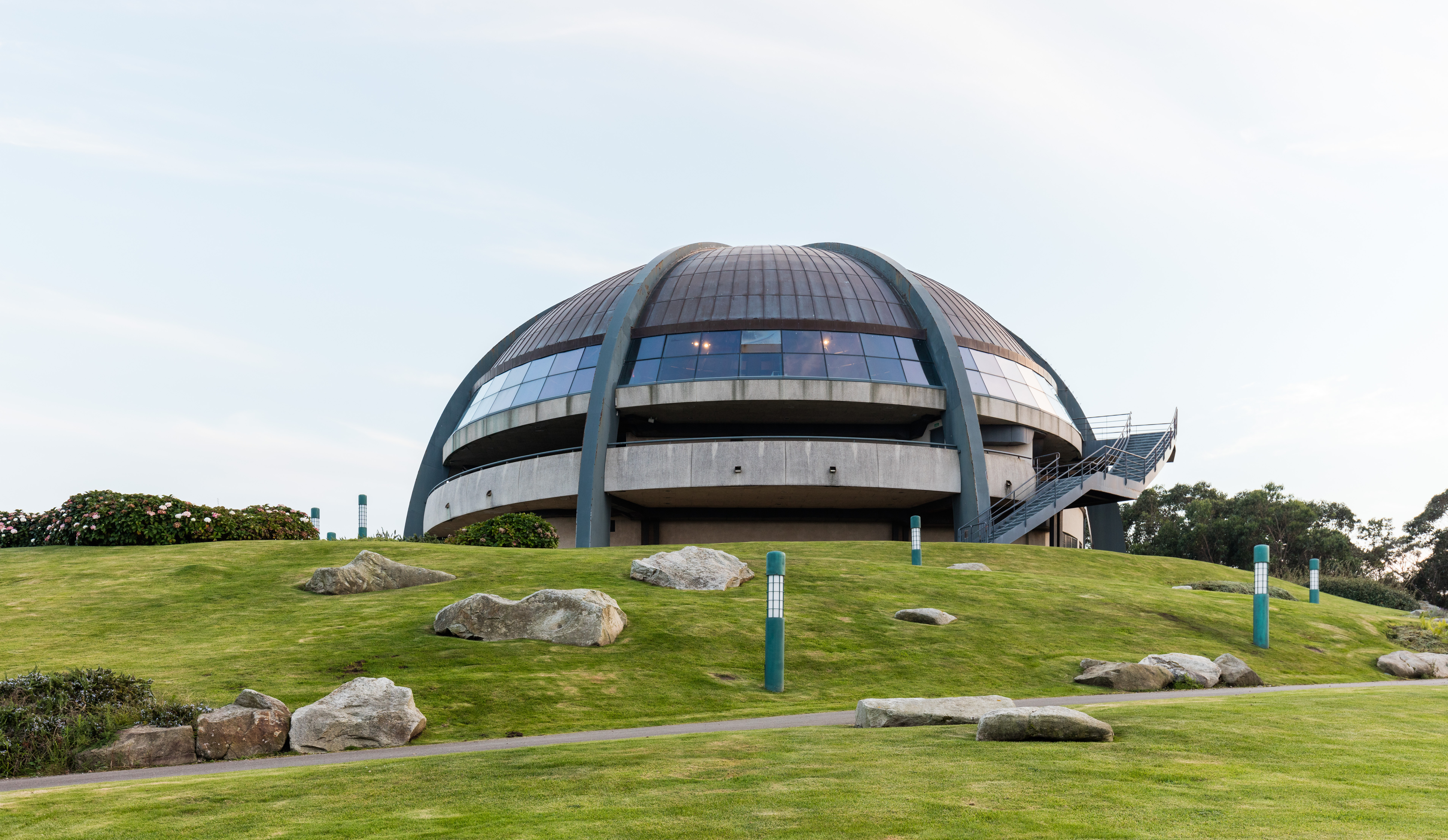 Atlantic Dome, St Peter Park, La Coruña, Spain